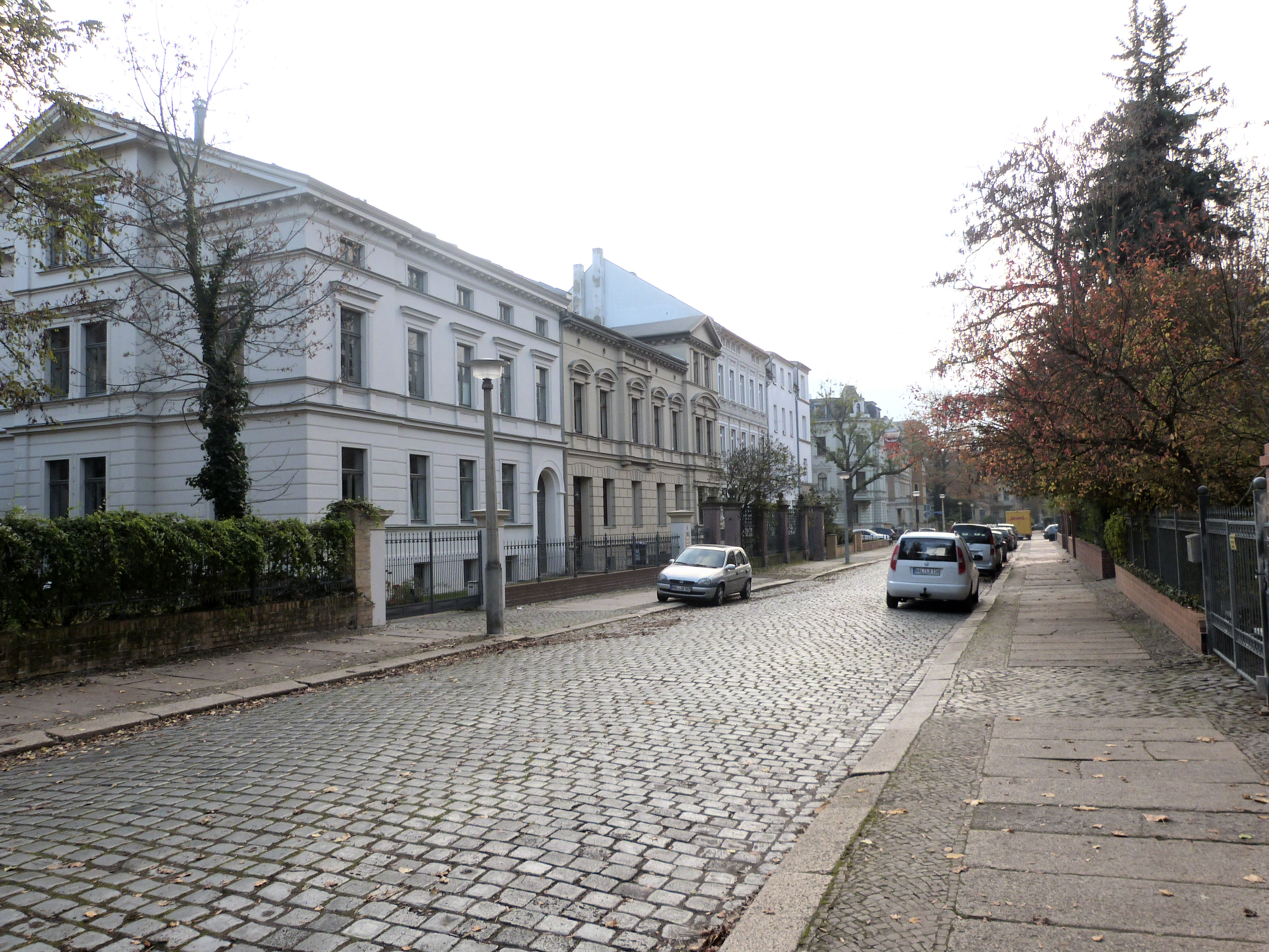 Blumenstrasse in Halle (Saale), Saxony-Anhalt, view to west